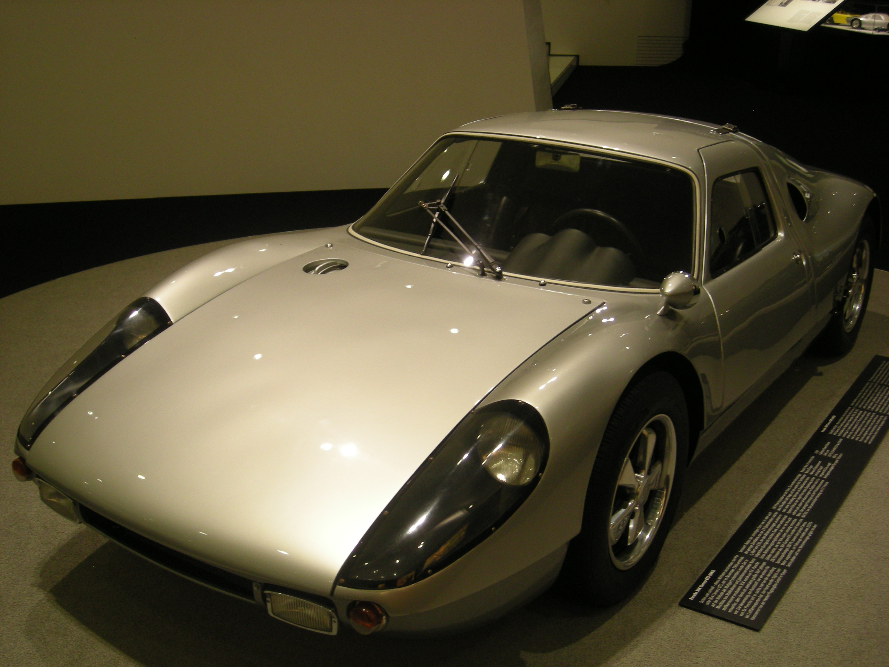 A 1963 Porsche 904 Carrera GTS inside the Porsche Museum in Stuttgart, Baden-Württemberg (Germany).